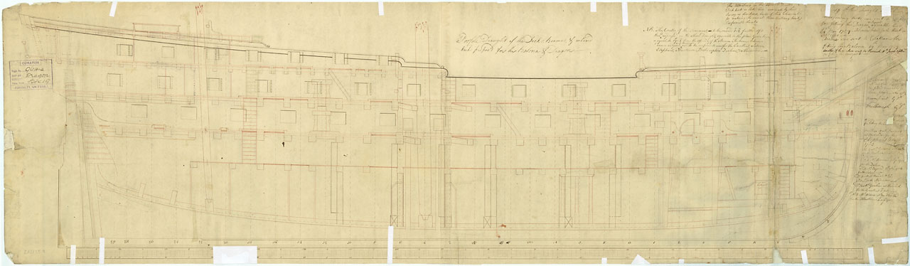 Plan showing the inboard profile for 'Bellona' (1760), 'Dragon' (1760), and 'Superb' (1760), 74-gun Third Rate, two-deckers, and with alterations for the Arrogant class (1758): 'Arrogant' (1761); 'Cornwall' (1761), 'Defence' (1763), 'Kent' (1762), 'Edgar' (1779), 'Goliath' (1781), 'Vanguard' (1787), 'Excellent' (1787), 'Saturn' (1786), 'Zealous' (1785), 'Elephant' (1786), 'Audacious' (1785), and 'Illustrious' (1789) all 74-gun Third Rate, two-deckers, and with further alterations for 'Monarch' (1765); 'Magnificent' (1766), both 74-gun Third Rate, two-deckers of the Monarch class (1760), although this plan implies they were originally to be of the Arrogant class.